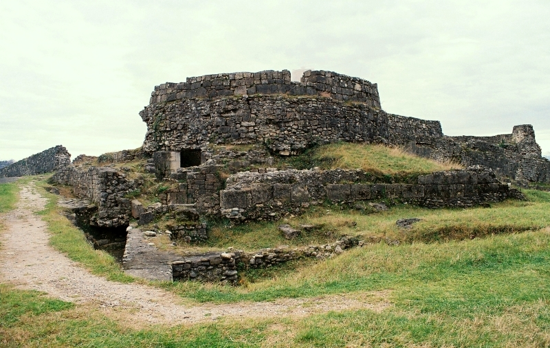 Ukimerioni Fortress